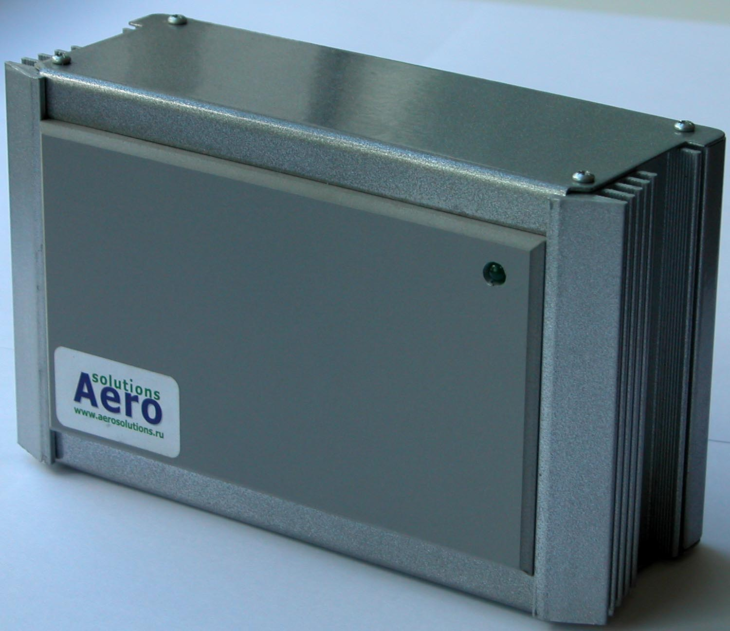 on-table rfid reader